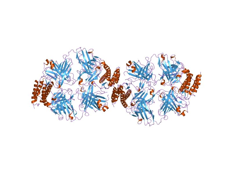 Cartoon representation of the molecular structure of protein registered with 1v7n code.